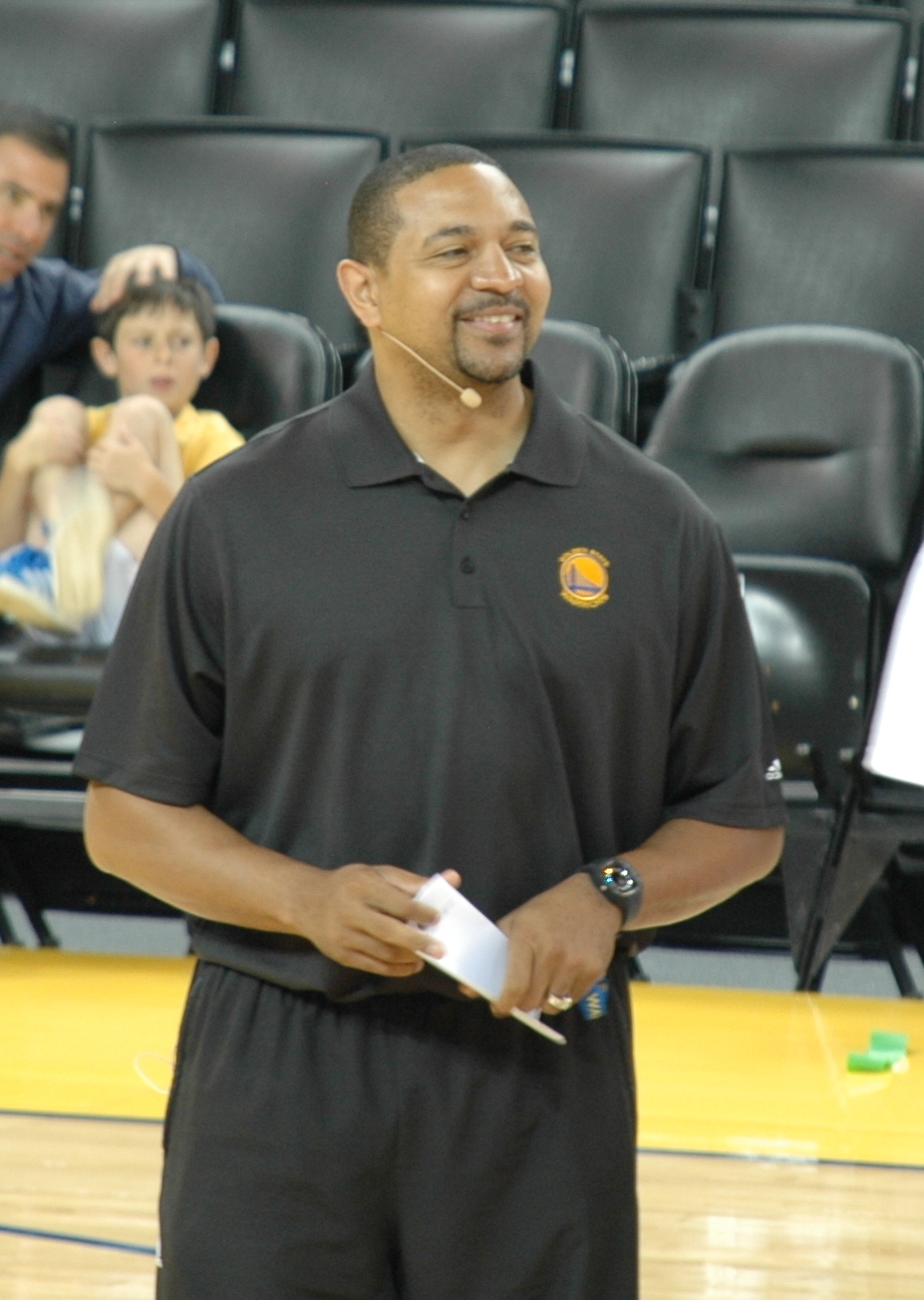 Mark Jackson, head coach of the 2012-13 Golden State Warriors, introducing the staff and team.